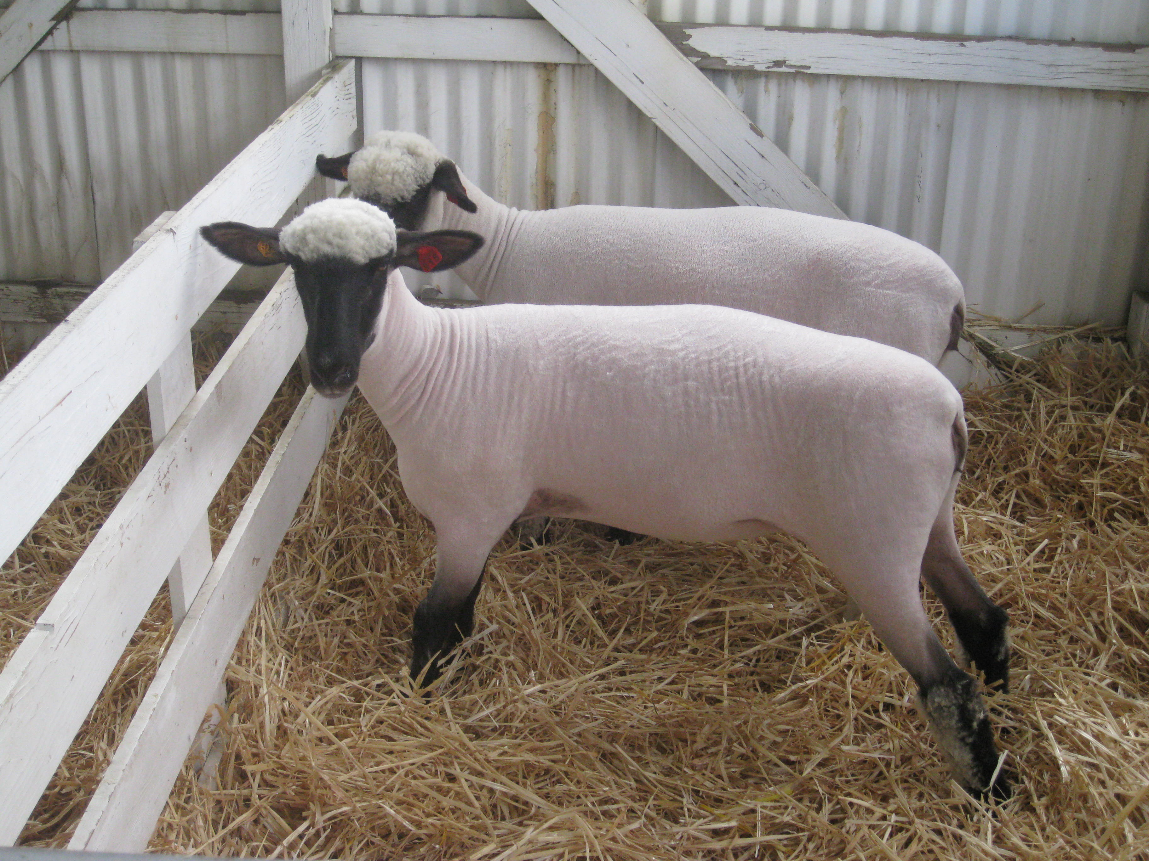 Yearling Shropshire ewes at the Clark County fair in Washington